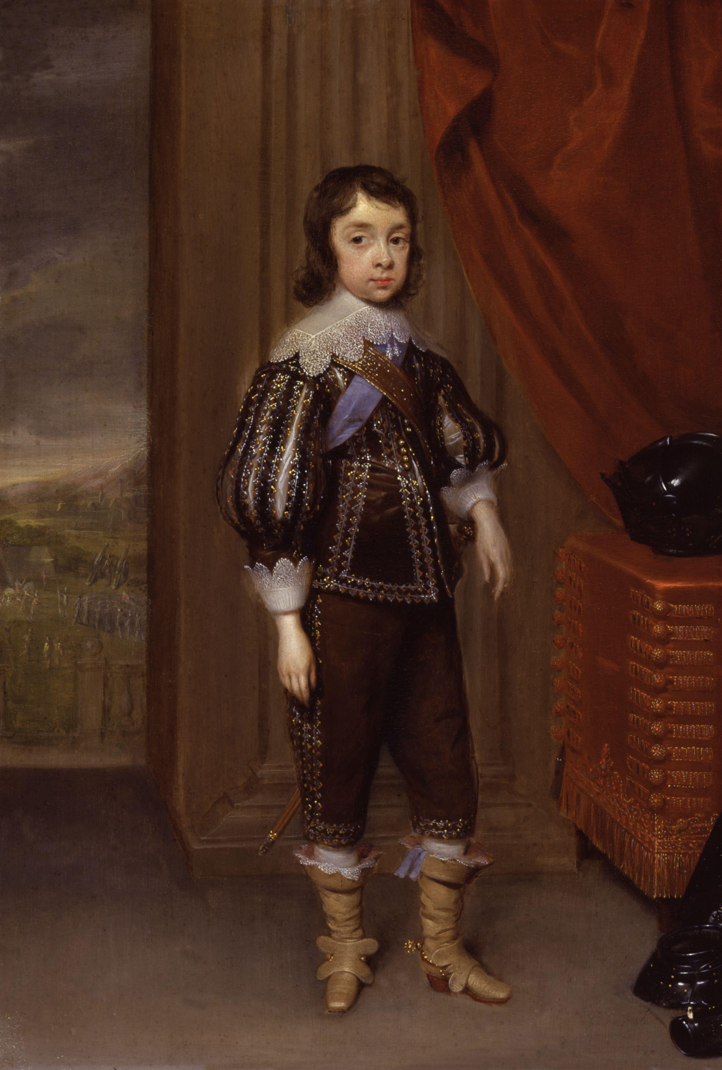 All images in this batch have been confirmed as author died before 1939 according to the official death date listed by the NPG.